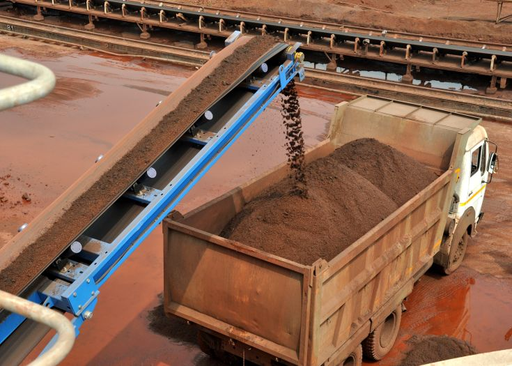 Washed iron ore is loaded into trucks from M2500